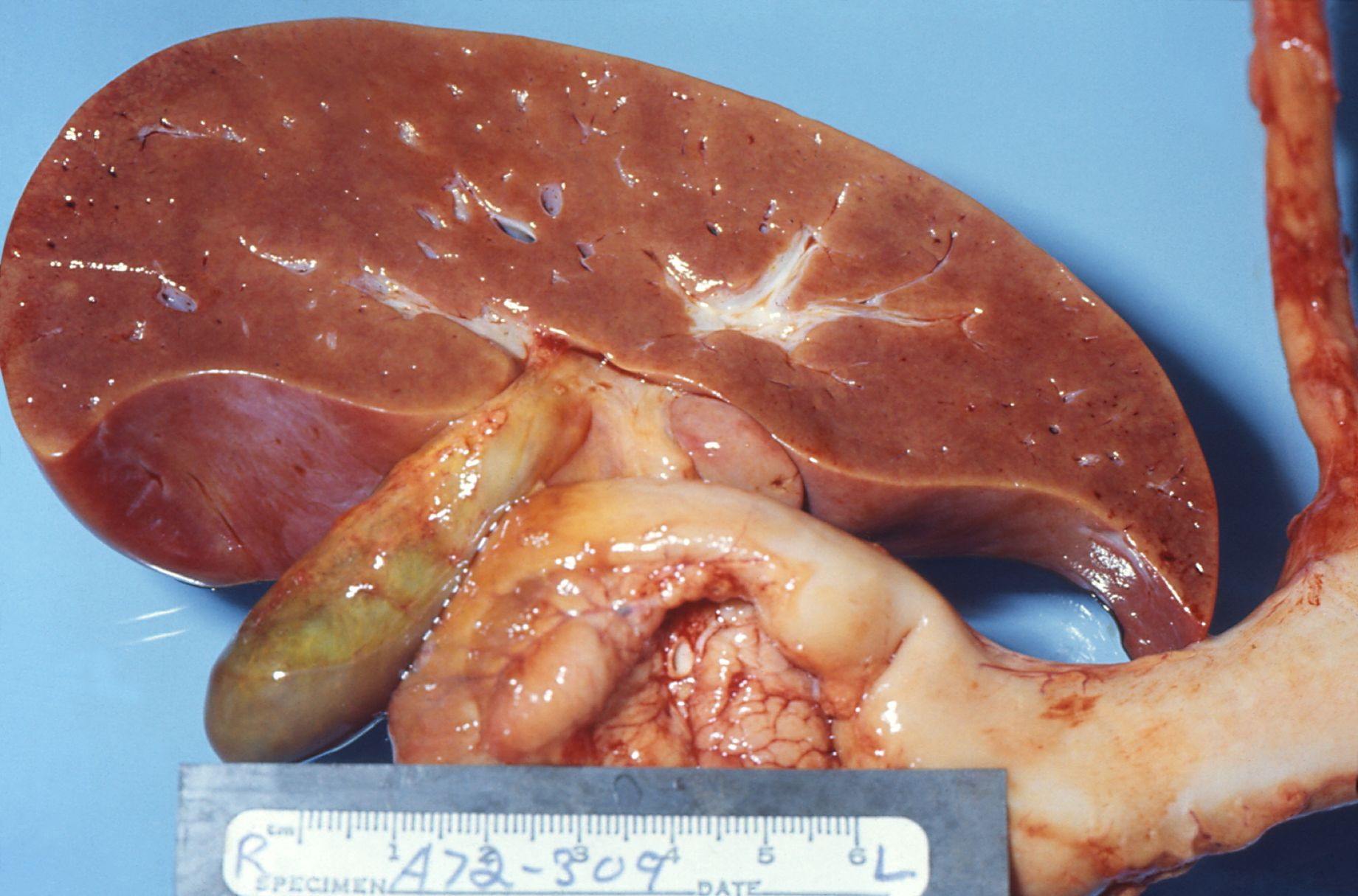 Gross pathology of liver in fatal Reye's syndrome. Gross autopsy specimen of liver from child who died of Reye's syndrome. Cut surface shows slight pallor due to fat accumulation in liver cells.